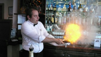 Saganaki At Parthenon-Greektown Chicago